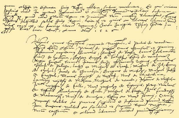 Parilamentary invitation card in Hungary